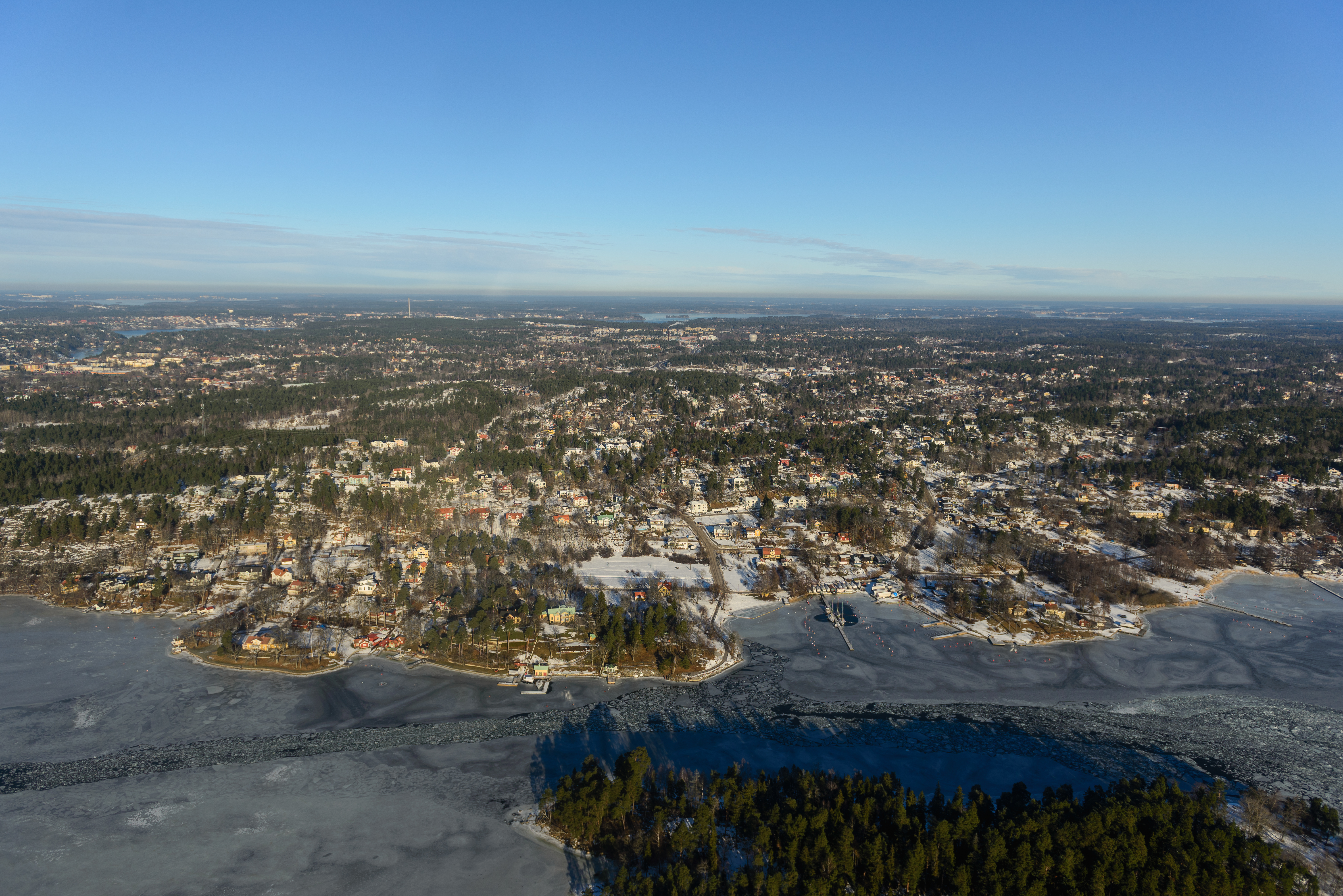 Lännersta.